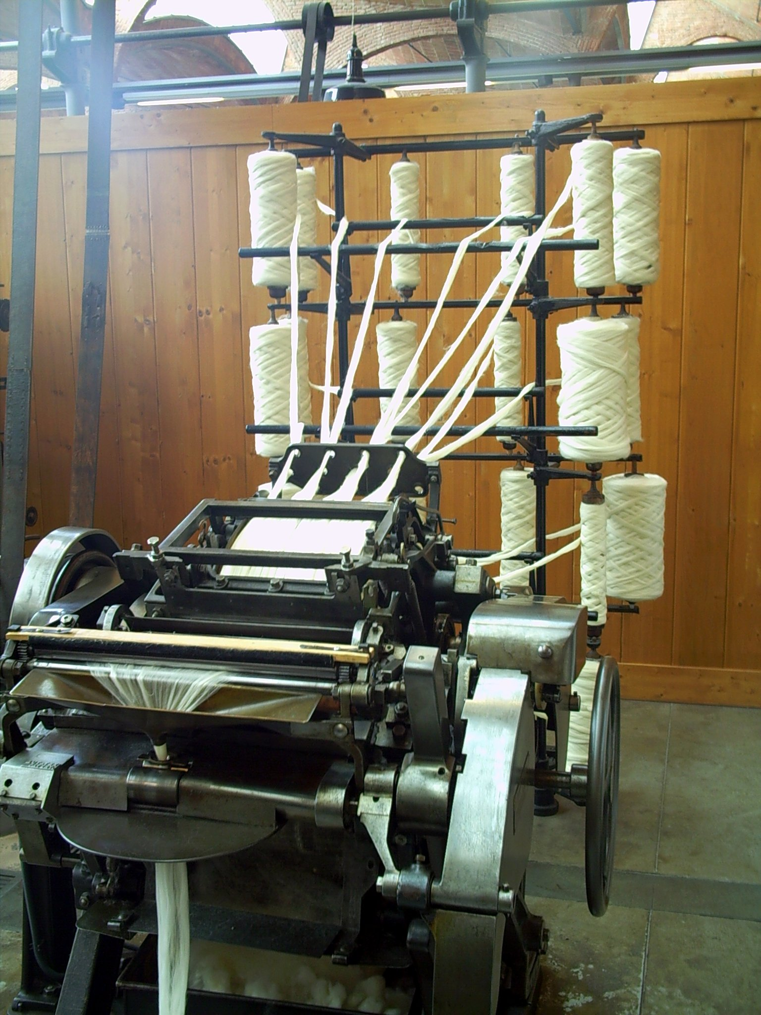 Comber, at the mNATECT, Terrassa, (Catalunya).